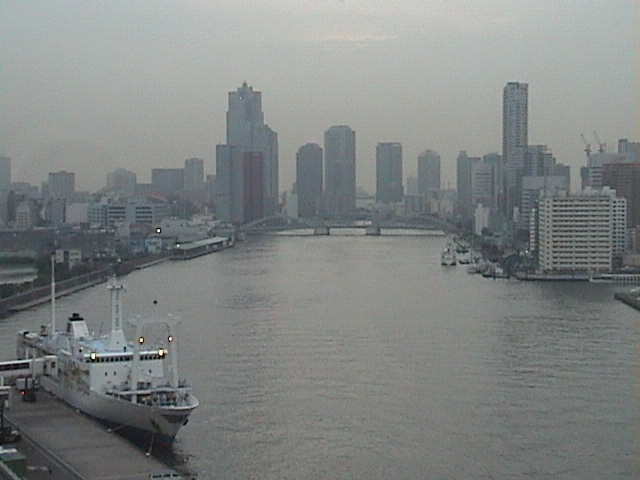 Tokyo Bay Note: You can check similar scene on street view.